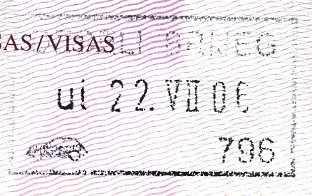 Passport stamp from Debeli Brijeg, July 2006. Border crossing into Croatia at Karasovići.